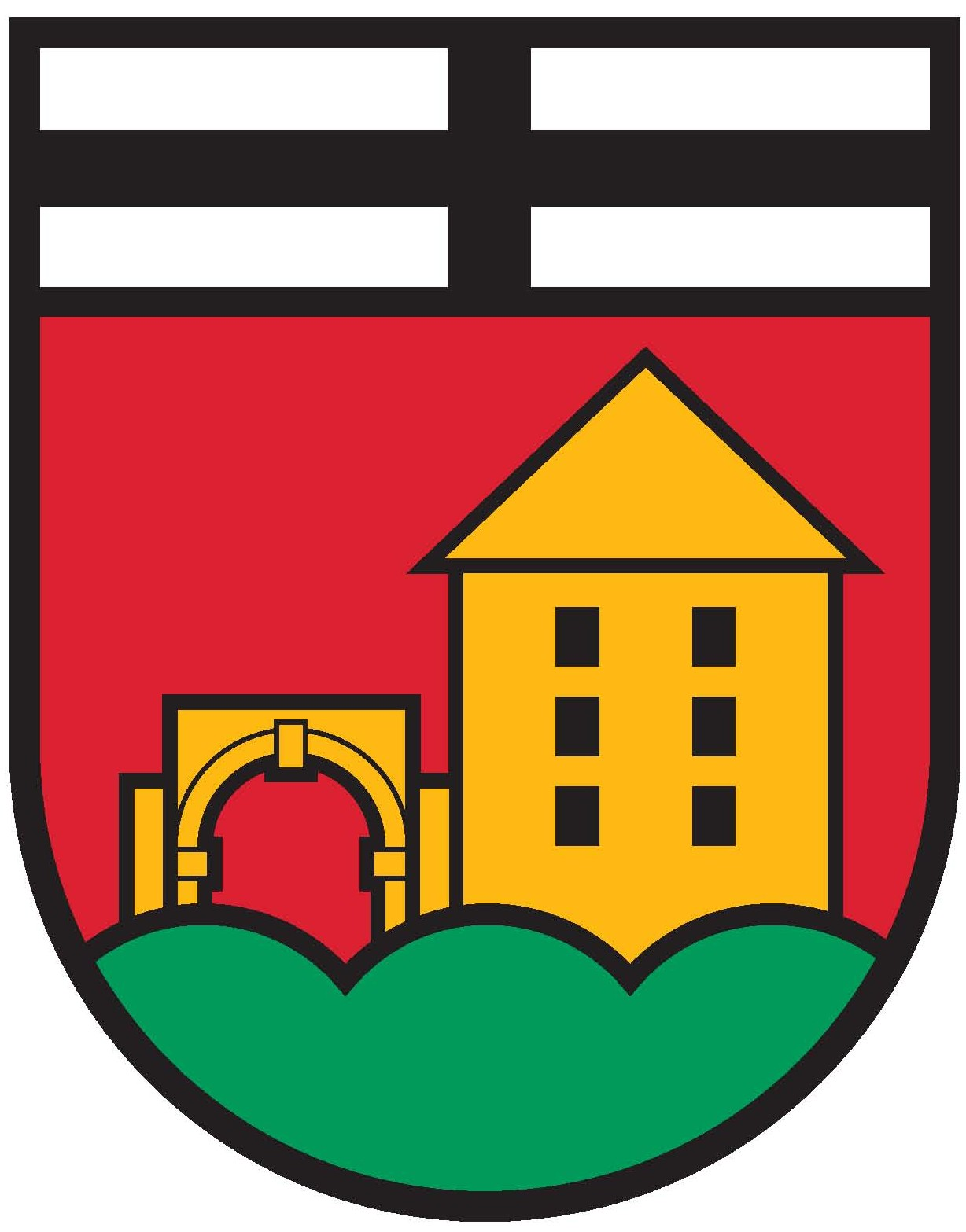 Coat of arms of Friesdorf in Bonn, Germany